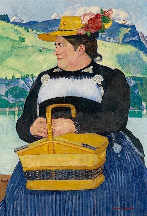 Peasant Woman with a Basket